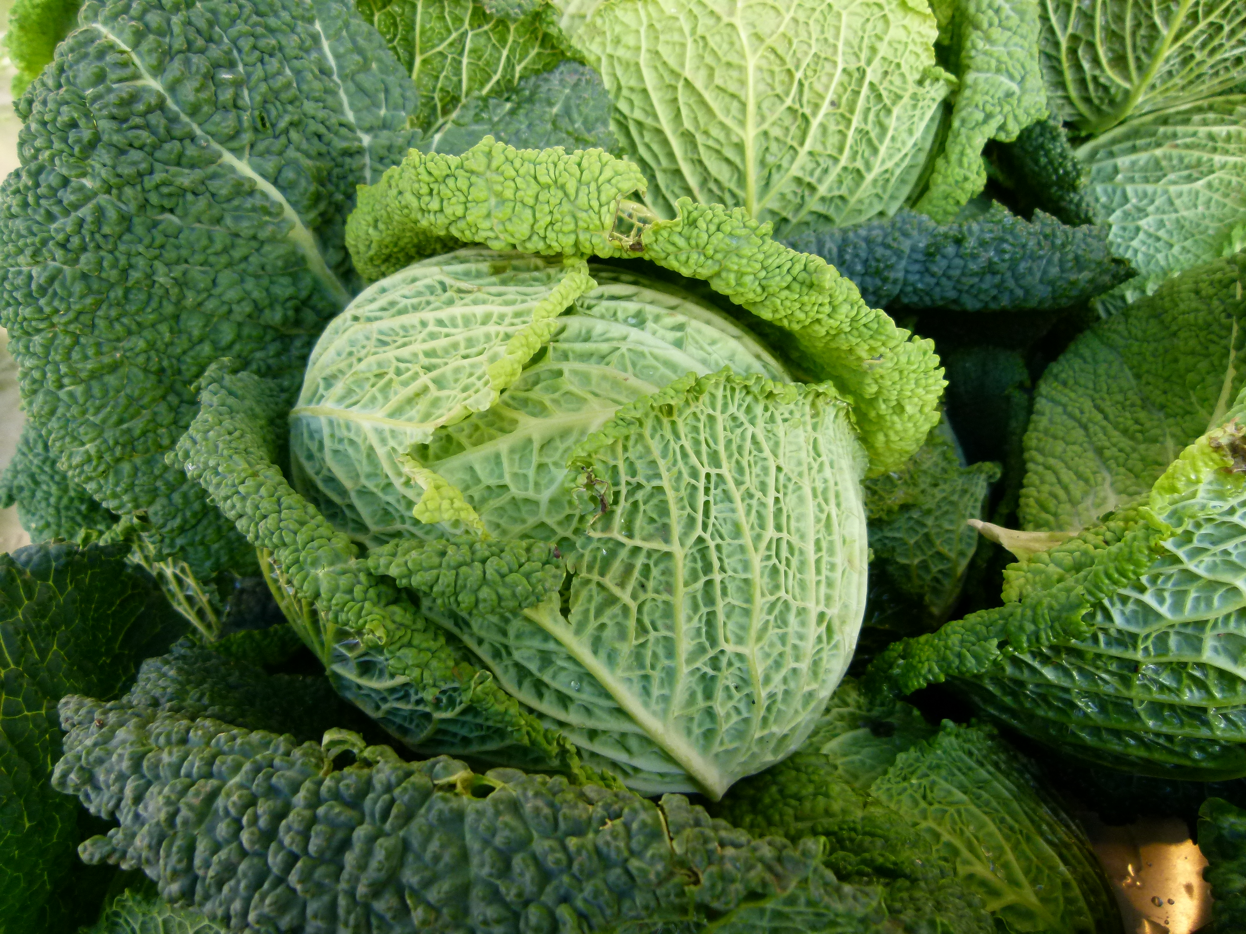 At the market - Milan cabbage